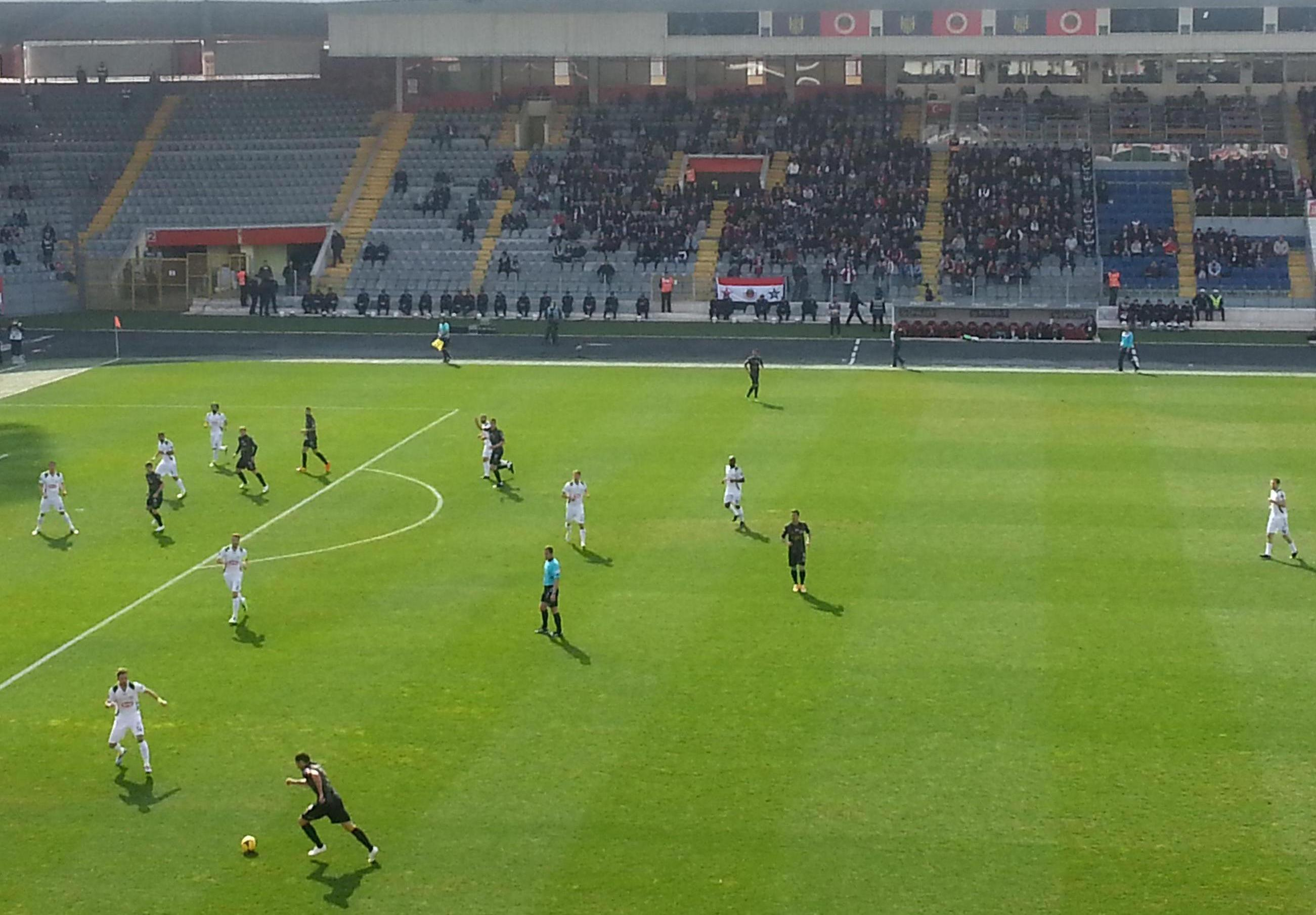 Turkish Super League match: Gençlerbirliği 2-2 Konyaspor